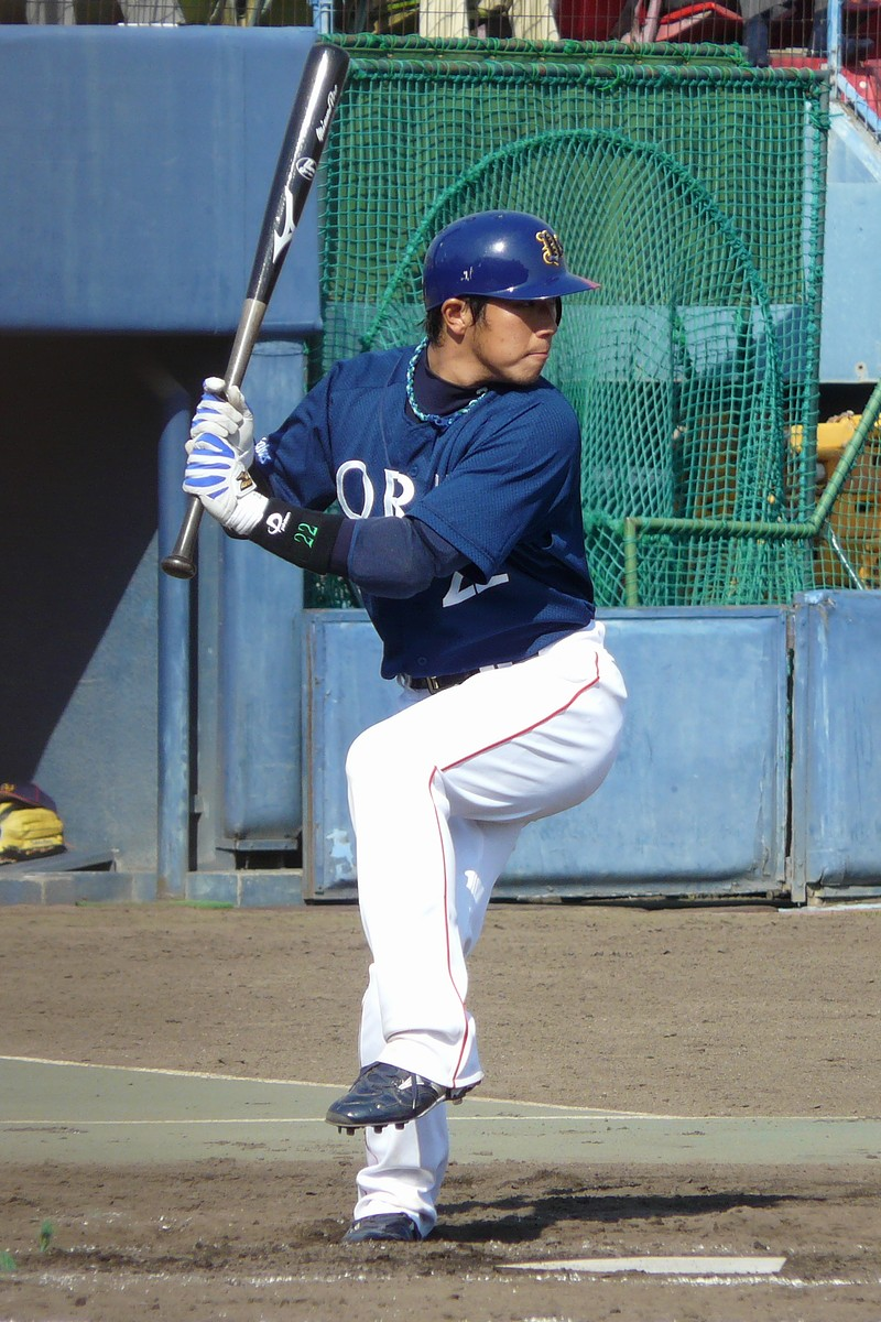 Daisuke Maeda